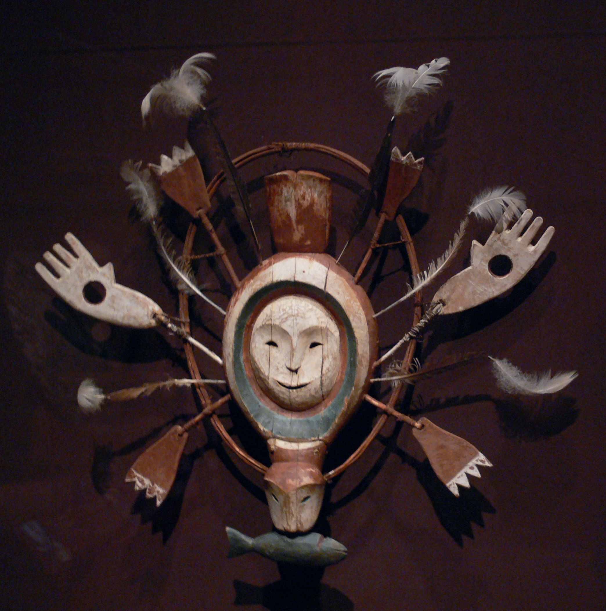 Mask with seal or sea otter spirit; Alaska, Yup'ik Eskimo people, late 19th century; Wood, paint, gut cord, and feathers; Dallas Museum of Art, Dallas, Texas; Dallas Museum of Art, gift of Elizabeth H. Penn; object number 1976.50